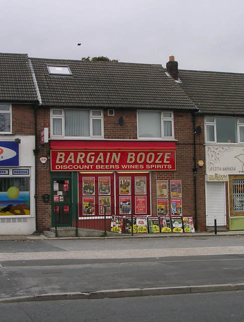 Bargain Booze - Galloway Lane